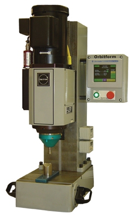 Orbitform Spiralform machine